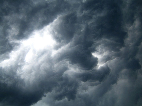 Storm